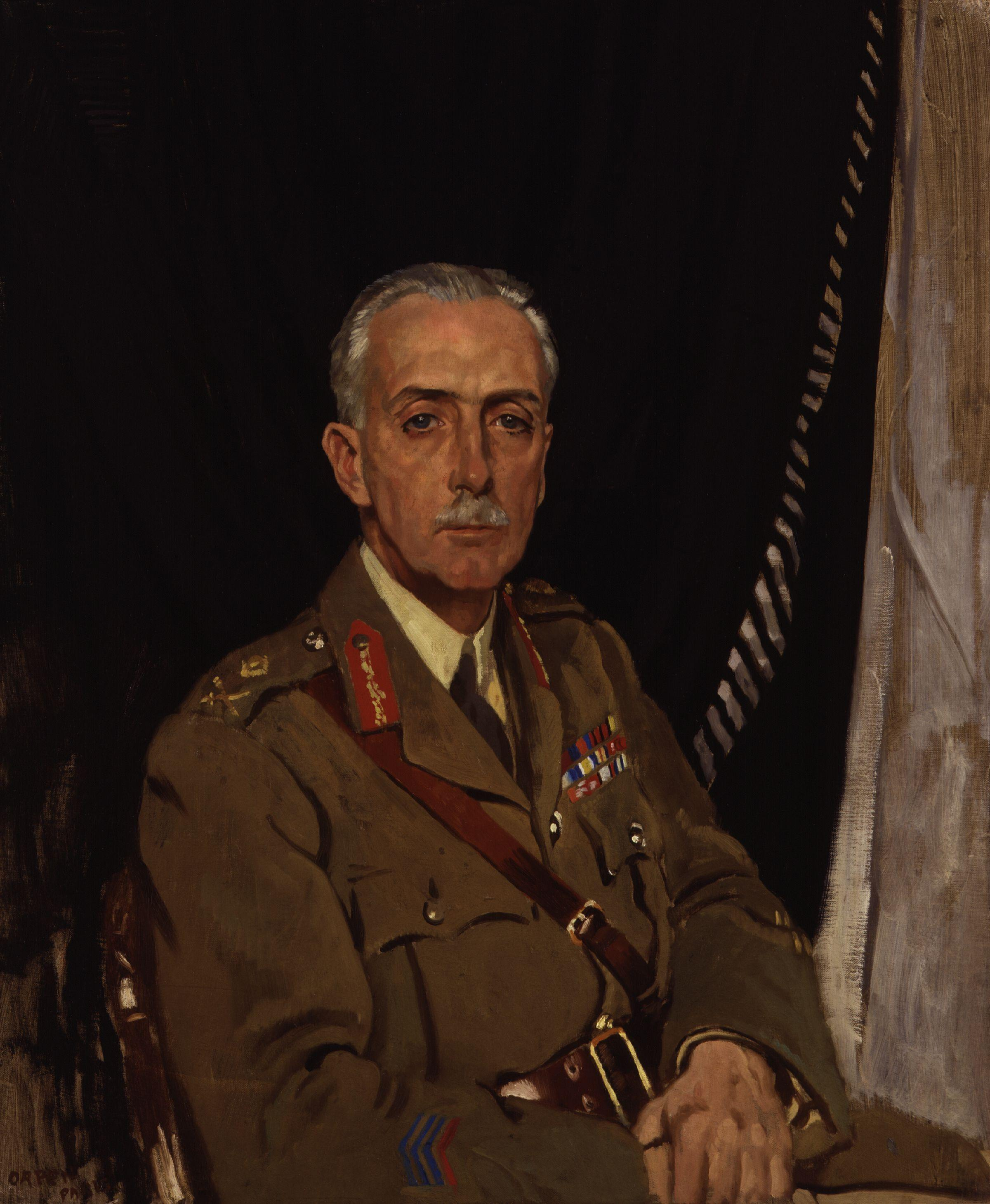 Charles Sackville-West, 4th Baron Sackville, by Sir William Orpen (died 1931), given to the National Portrait Gallery, London in 1968. All images in this batch have been confirmed as author died before 1939 according to the official death date listed by the NPG.